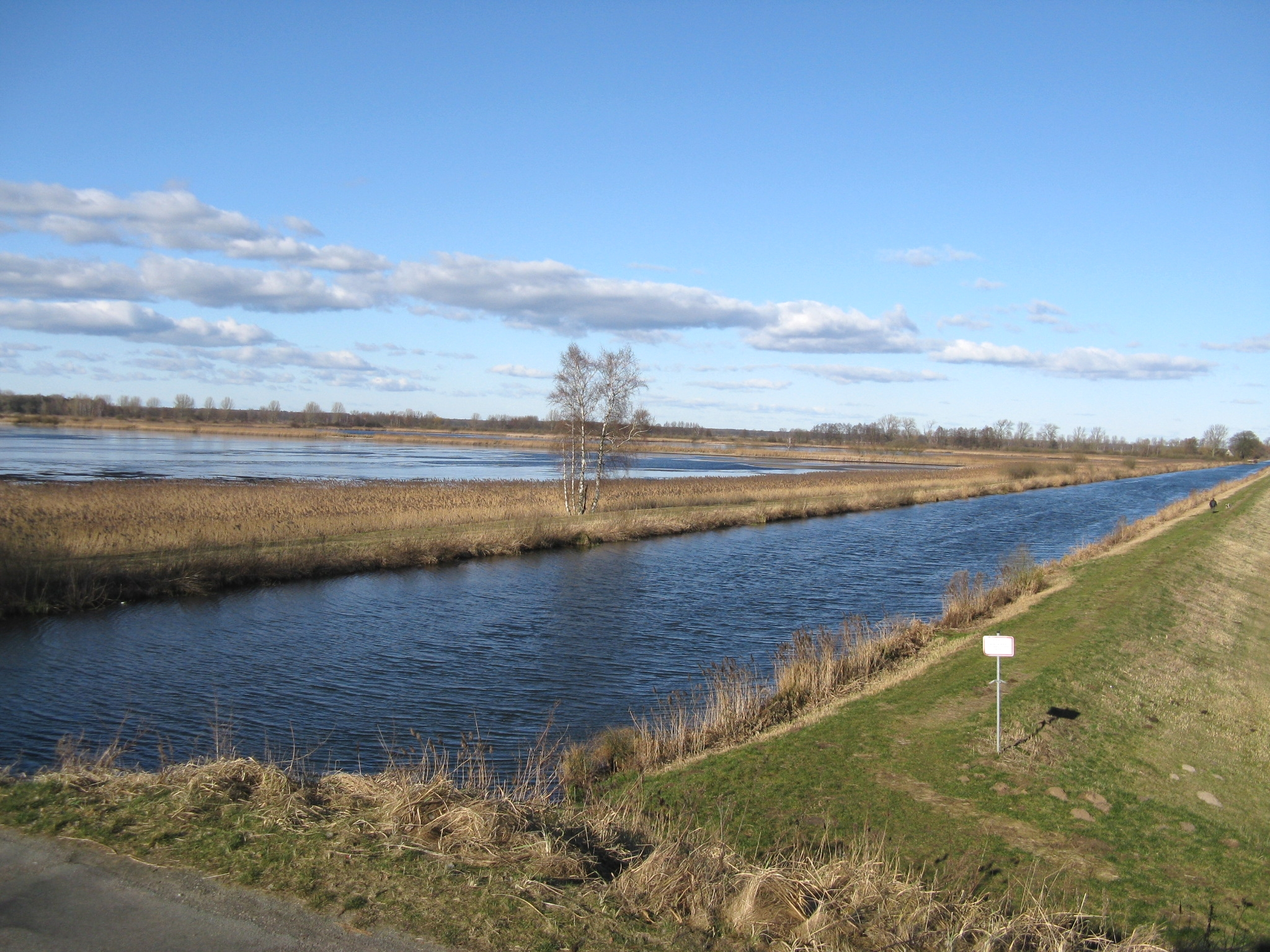 Common carp ponds and Müritz-Elde-Wasserstraße in the Lewitz north of Neustadt-Glewe, Germany